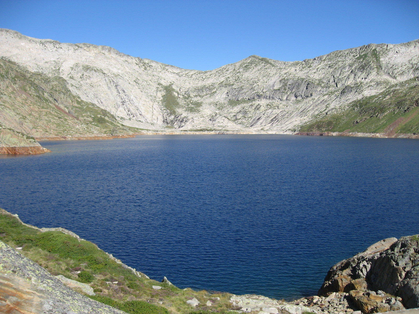 Lake Certascan This is a a photo of a geologic site or geotope in Catalonia, Spain, with id: IEIGC-101